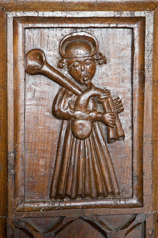 Detail of a bench end from Davidstow church depicting a Cornish piper.